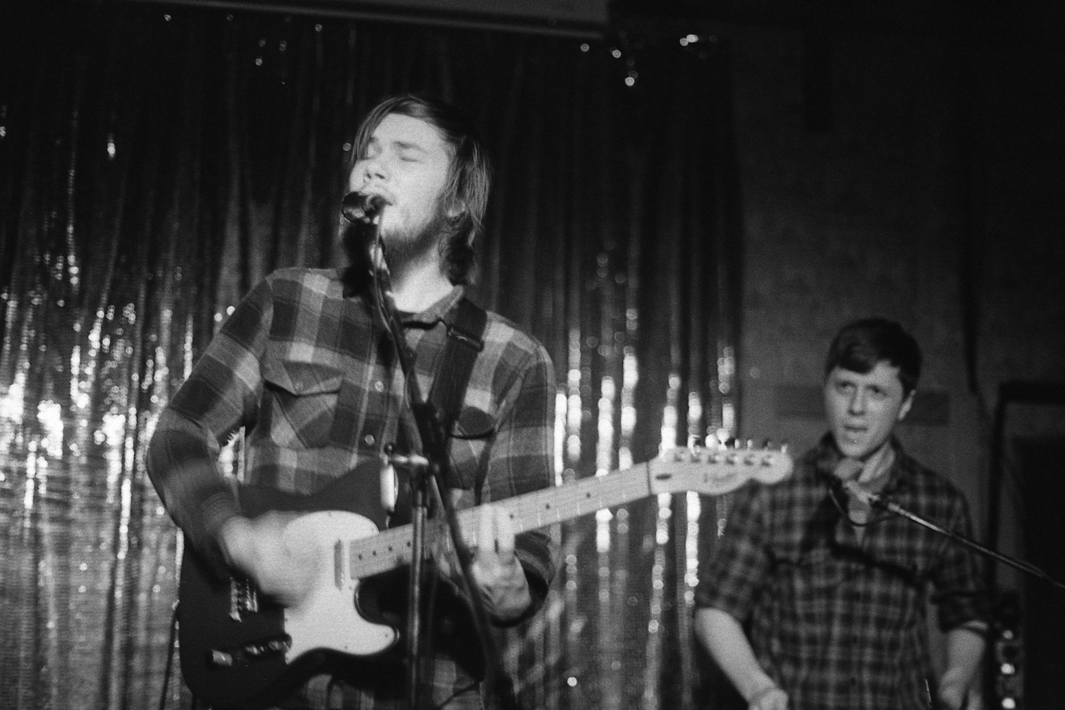 The Black Atlantic at the Neue Berliner Initiative / Berlin / December 6th 2009. Bandleader Geert van der Velde is at right.